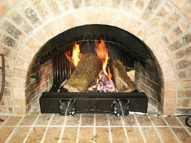 The second fireplace grate heater built in 2002, still in use in Molalla Oregon to this day.